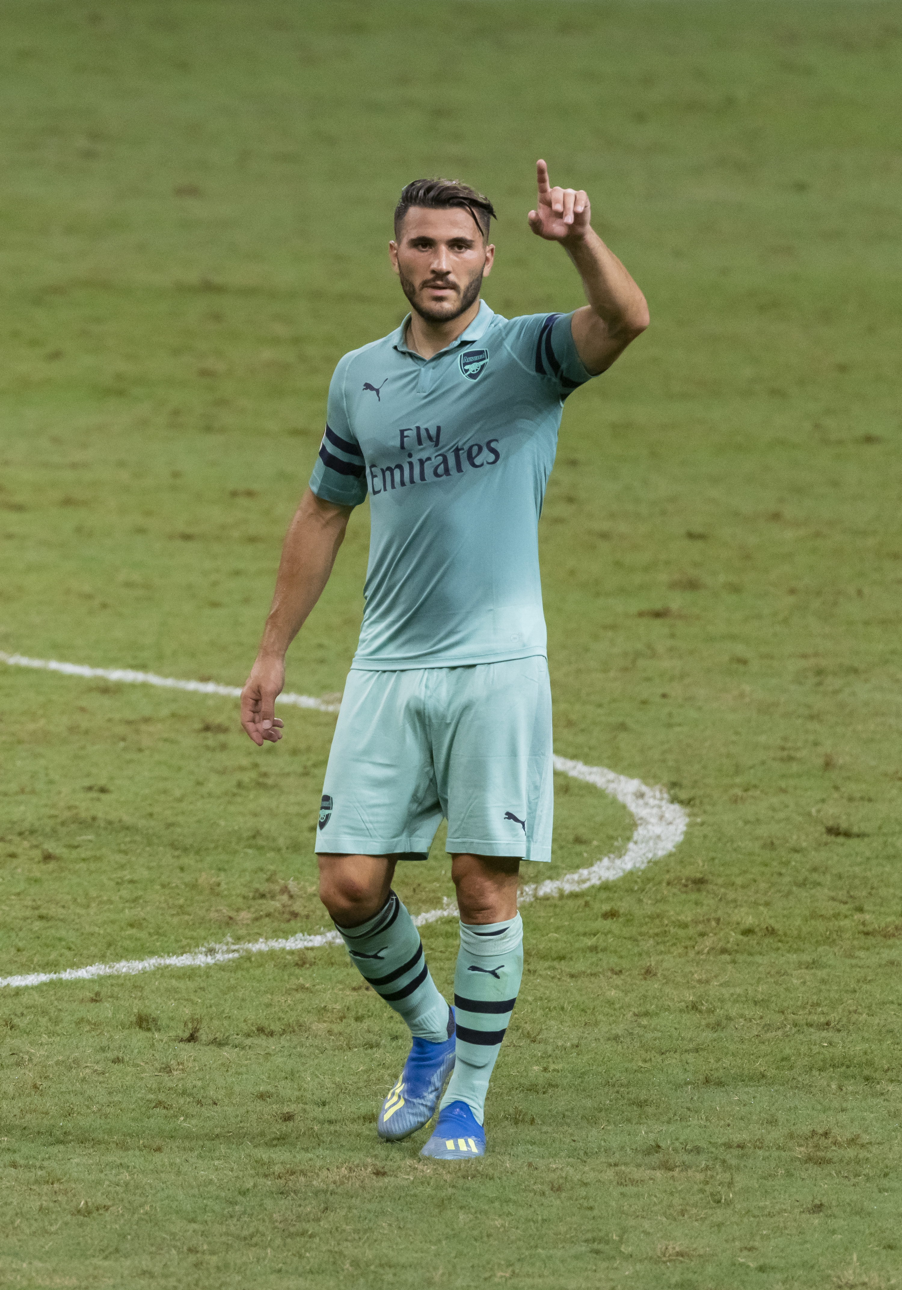 Sead Kolašinac Arsenal v PSG International Champions Cup 2018 Singapore National Stadium